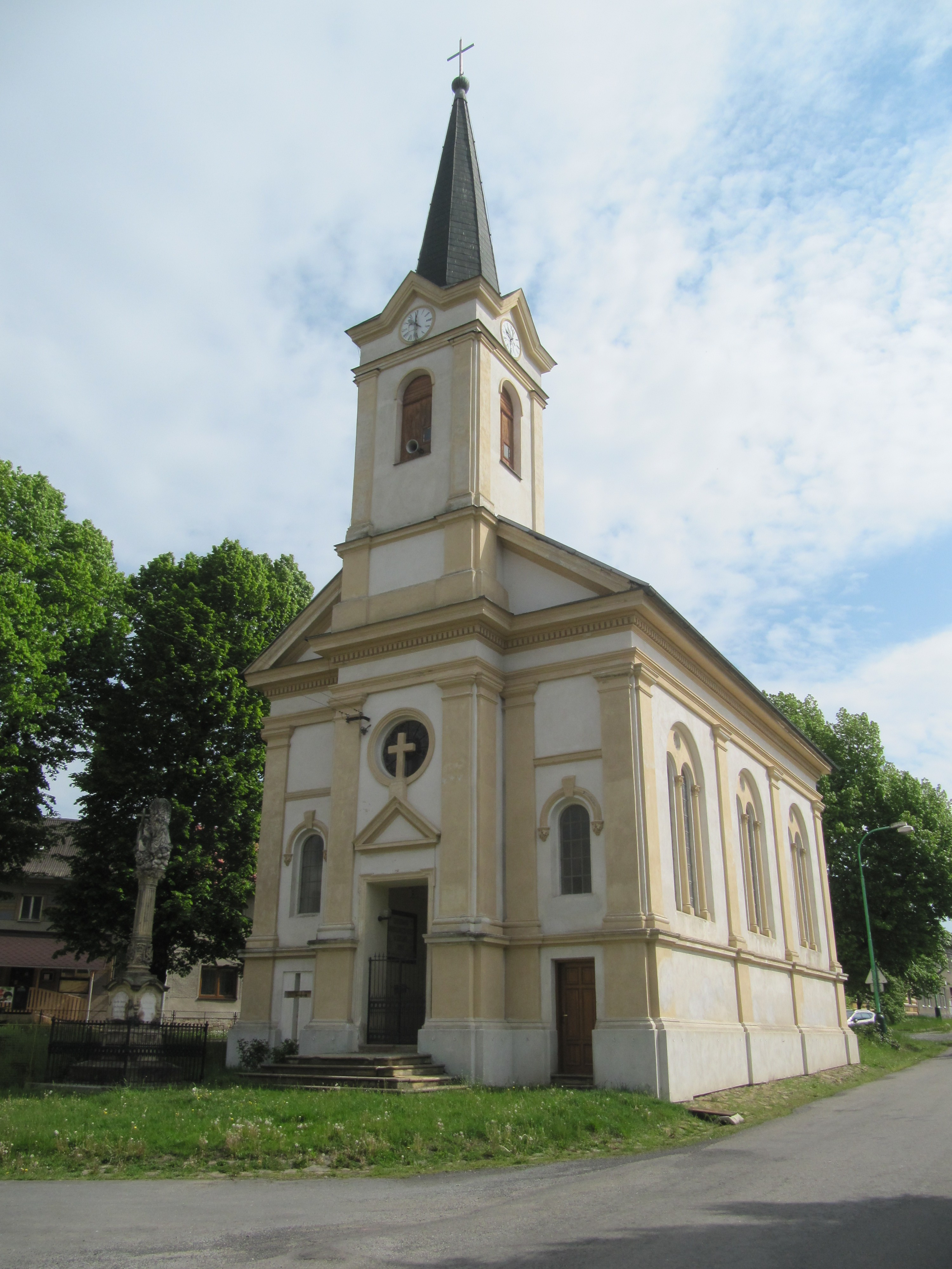 Těšetice, Olomouc District, Czech Republic, part Vojnice.